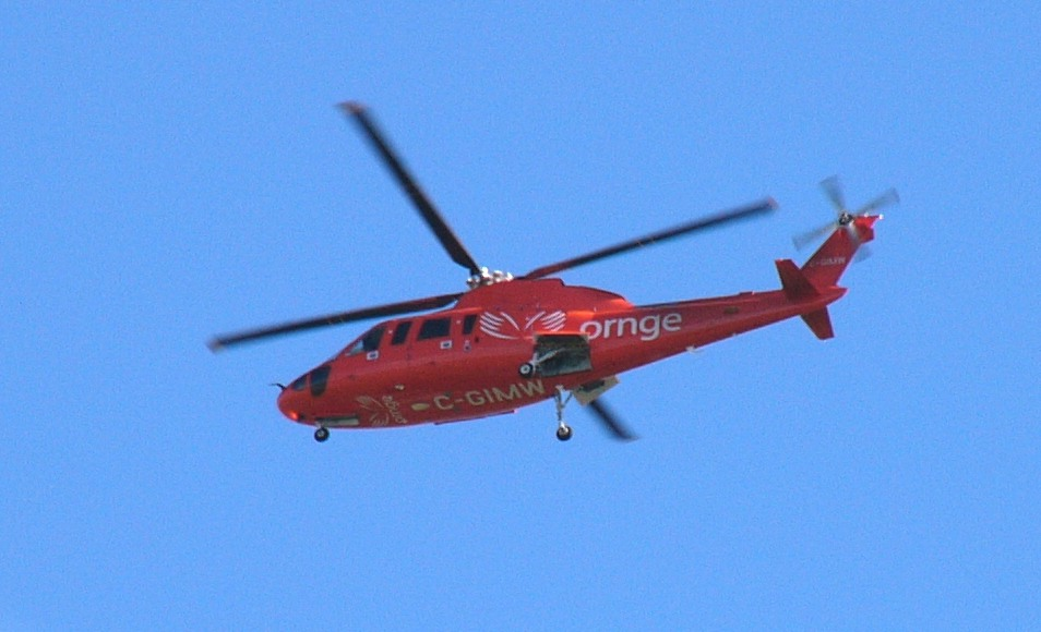 Ontario air ambulance S-76A